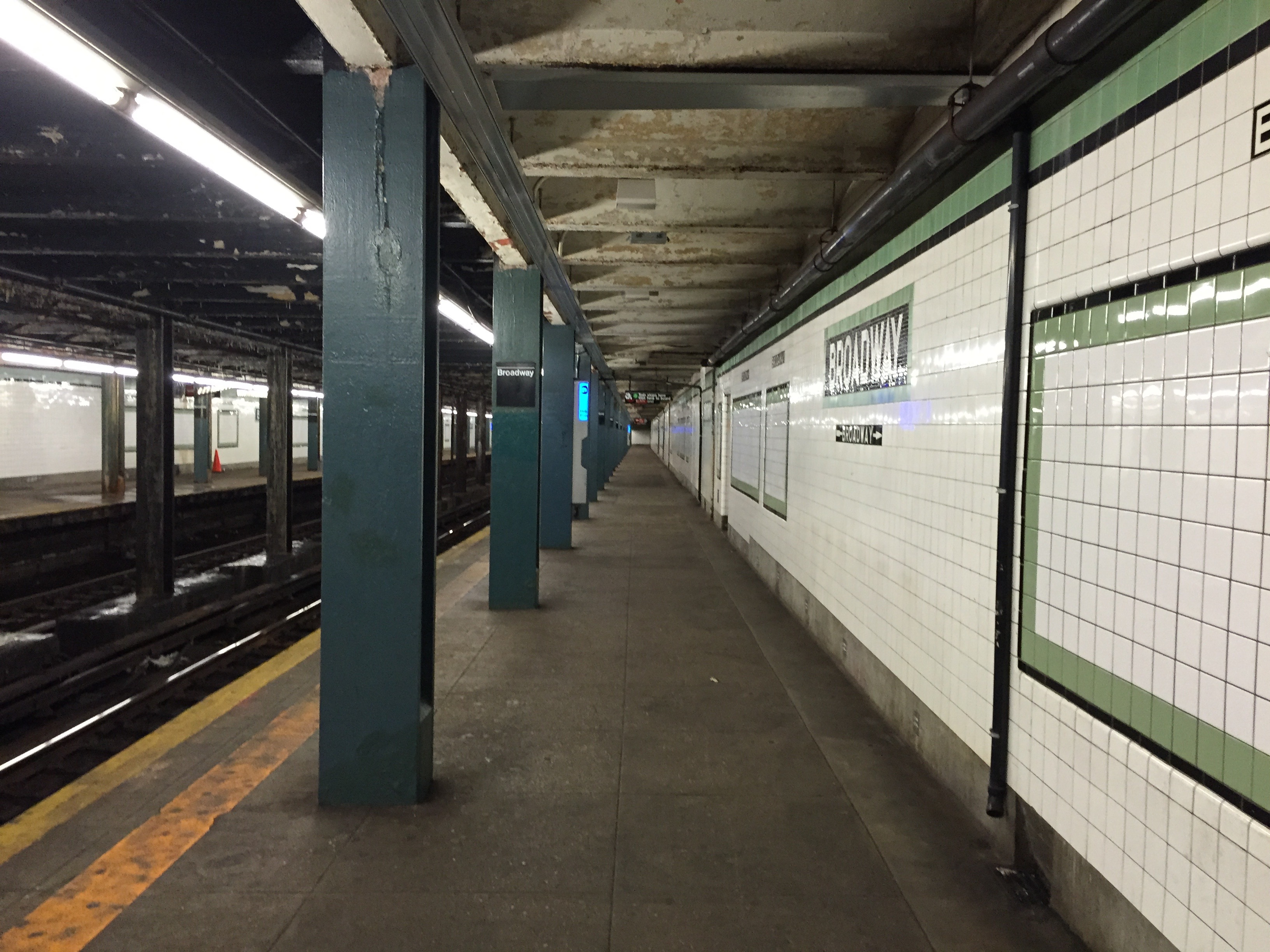 Queens bound platform at the Broadway G station.